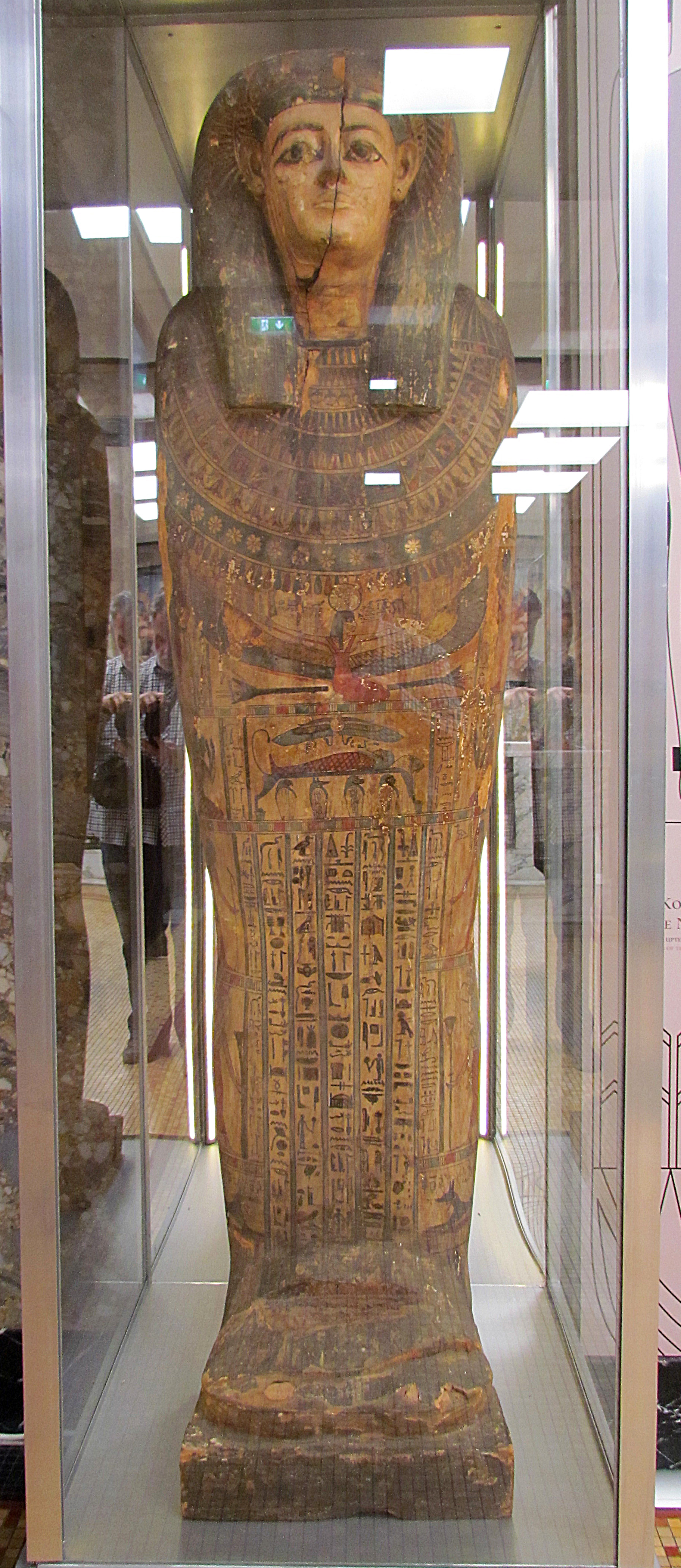 The Nefer-Renepet's Coffin, National Museum of Serbia